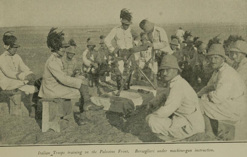 WWI Photograph -Italian Troops (Bersaglieri) in Palestine in 1917